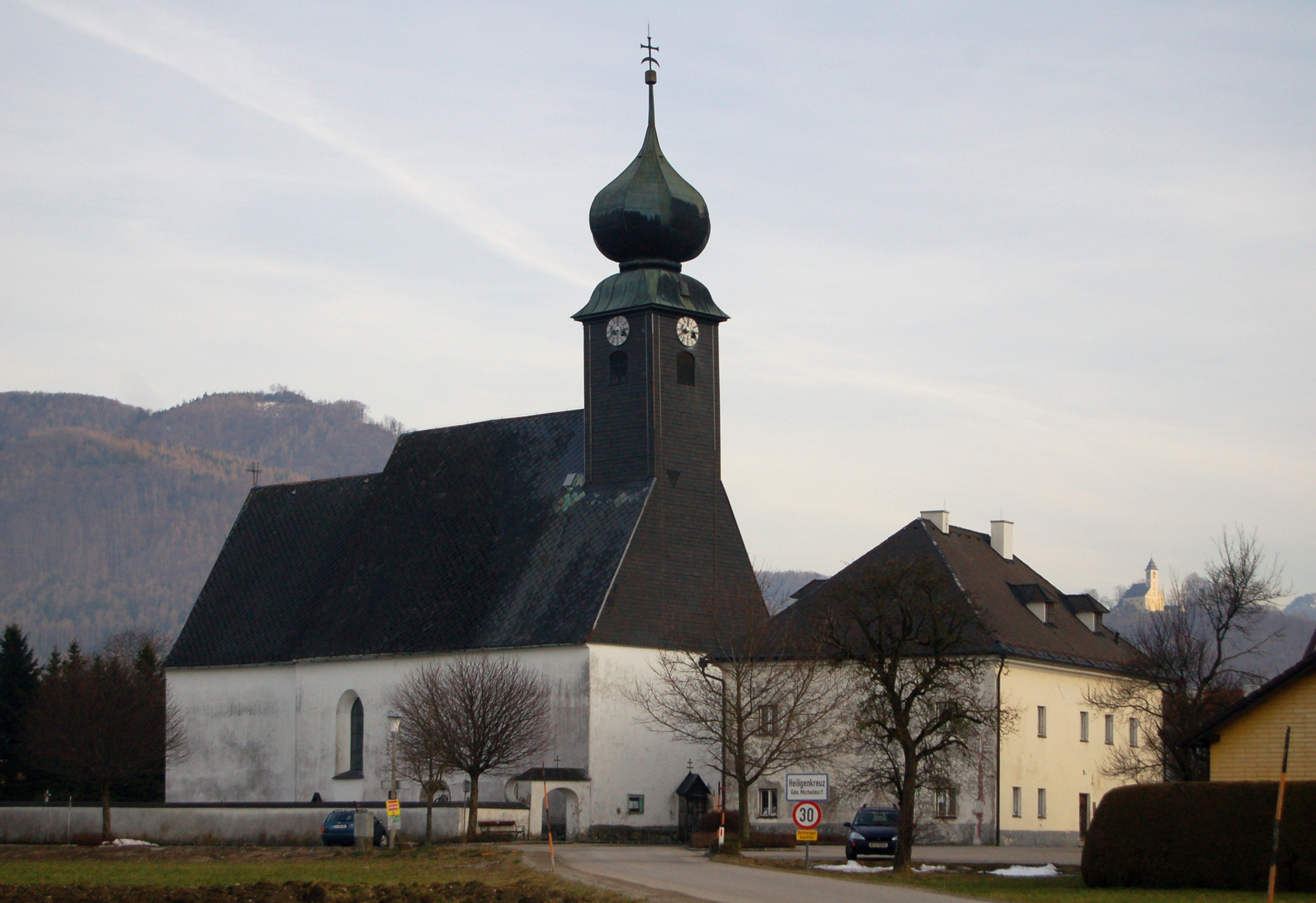 The parish church Kreuzerhöhung in Heiligenkreuz, Micheldorf in Oberösterreich, Upper Austria, is protected as a cultural heritage monument.